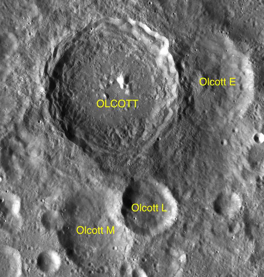 Part of the chart LAC-47 used for the presentation